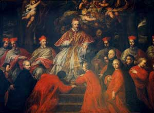 Pope Julius III ratifying the foundation of the German College with the Bull Dum sollicita of 31 August 1552